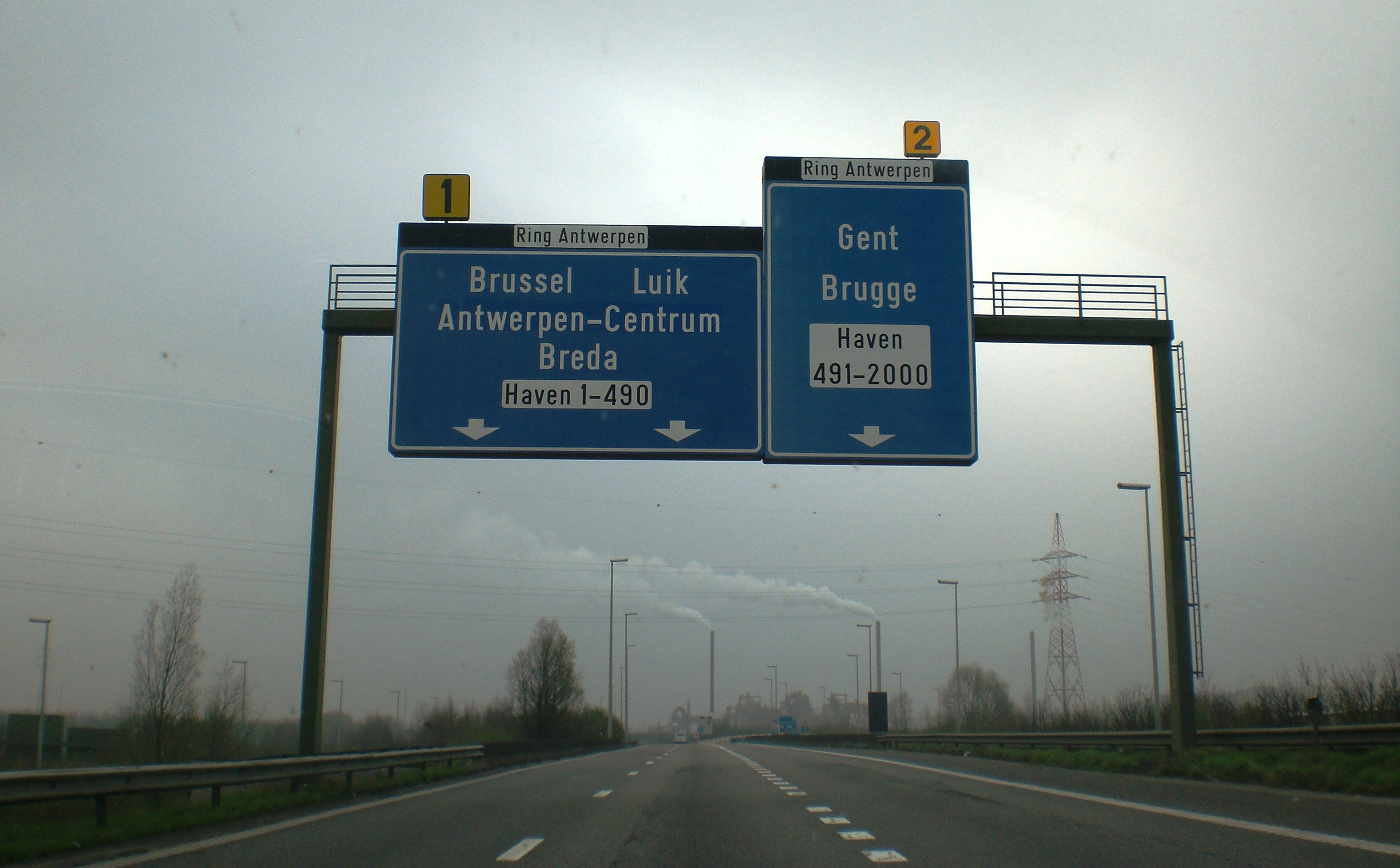 The belgium A12-Motorway nothern of Antwerp.